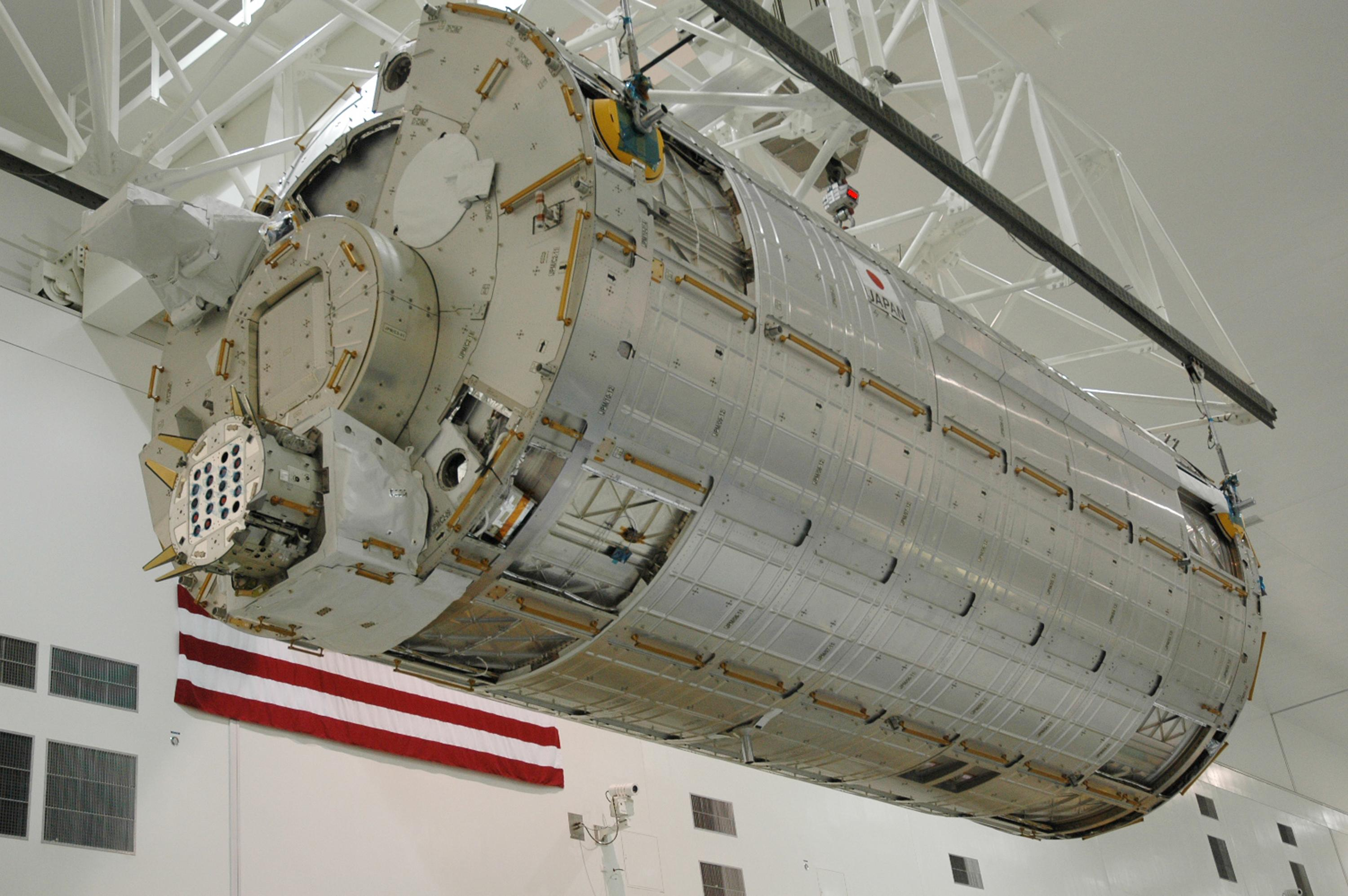 KENNEDY SPACE CENTER, FLA. -- In the Space Station Processing Facility, the Japanese Experiment Module (JEM), after being weighed, makes a return trip to its transporter. The Japanese Aerospace Exploration Agency developed the laboratory at the Tsukuba Space Center near Tokyo. It is the first element, named "Kibo" (Hope), to be delivered to KSC. The JEM is Japan's primary contribution to the International Space Station. It will enhance the unique research capabilities of the orbiting complex by providing an additional environment for astronauts to conduct science experiments. The JEM is targeted for mission STS-124, to launch in early 2008.